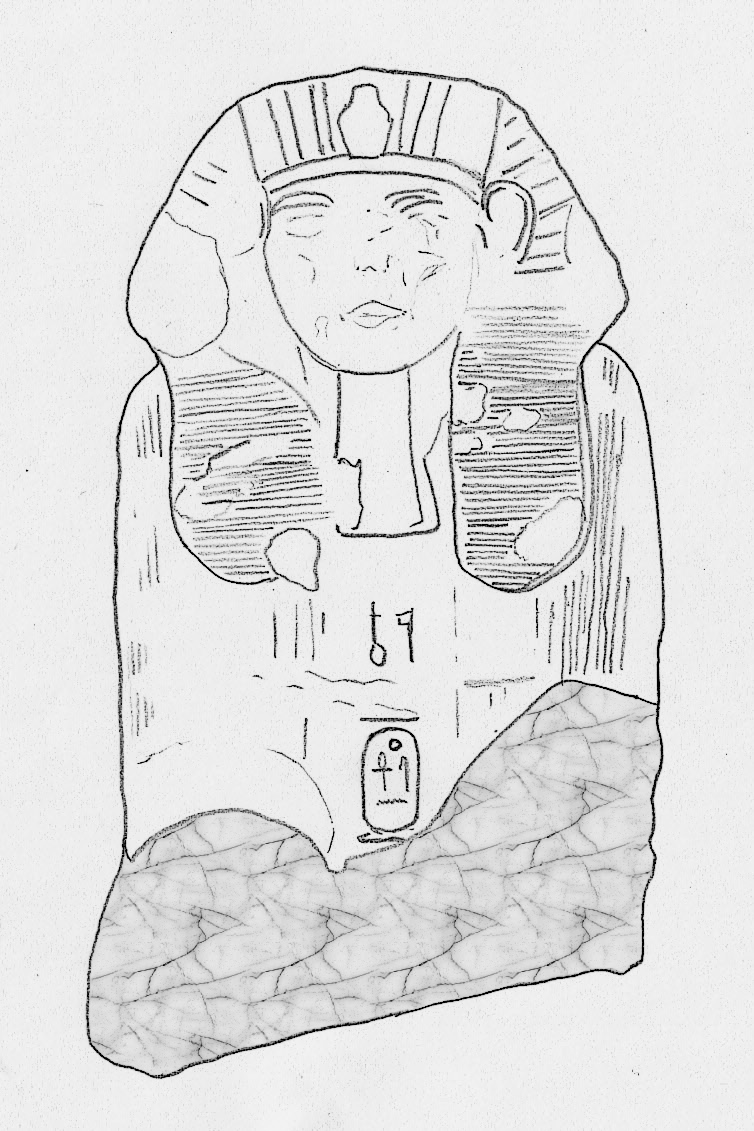 Drawing of an ancient Egyptian damaged sphinx with of king Seankhenre Mentuhotepi, a pharaoh in Thebes during the Second Intermediate Period. The cartouche between the legs contains the name Seankhenre. Found at Edfu in 1924 along with a "sister" sphinx with the cartouche of Mentuhotepi. [ref: Henri Gauthier (1931), "Deux sphinx du Moyen Empire originaires d'Edfou", ASAE 31]